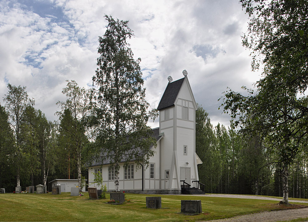 Puottaure church in Jokkmokk community Lapland Sweden, built 1904 - 1907